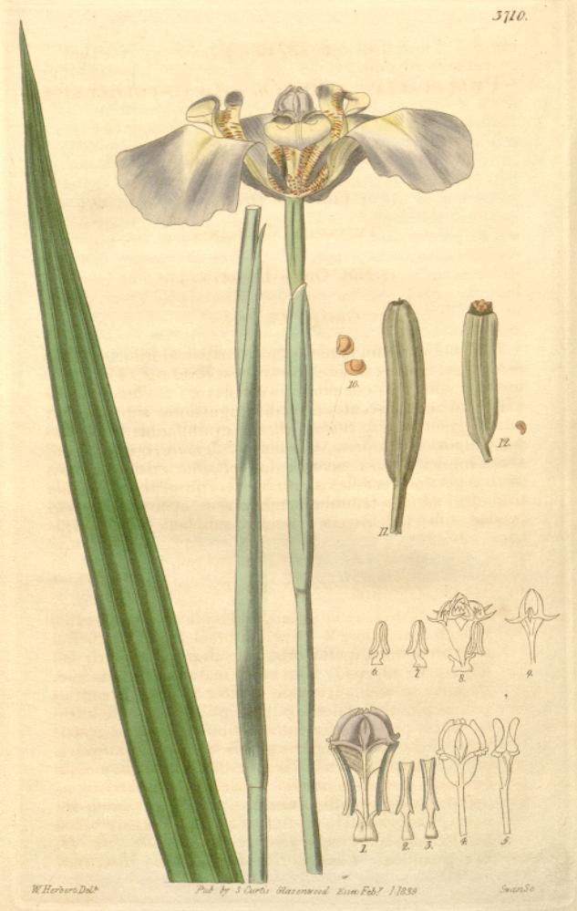 Illustration of Cypella coelestis (Syn. Cypella plumbea)